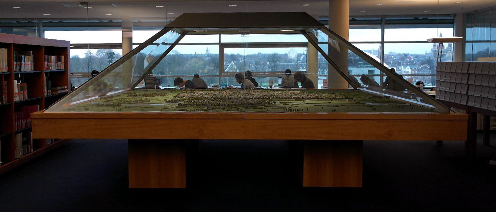 Copy of the French Maquette of Maastricht on display in Centre Céramique, Maastricht, the Netherlands. The copy was made in 1974-1982, based on the mid-18th-century scale model built for King Louis XV of France. Usually only the central section is on display, as is the case here.